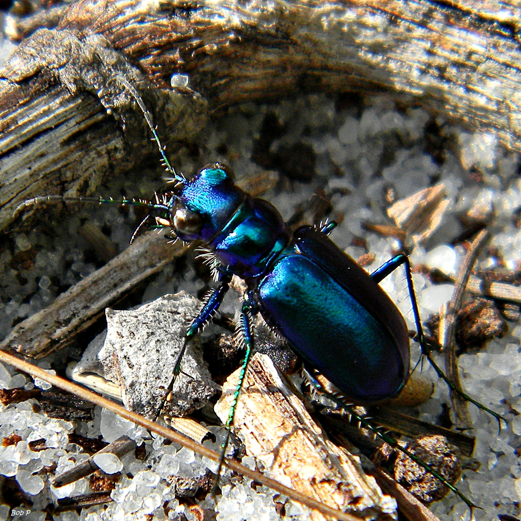 The festive tiger beetles were still busy in the sandy scrub this week. This individual posed on some wood fragments (instead of pure white sand) allowing the sensitive "hairs" on the legs and antennae to be seen. Oak scrub at Jupiter Ridge Natural Area, Palm Beach County, Florida.